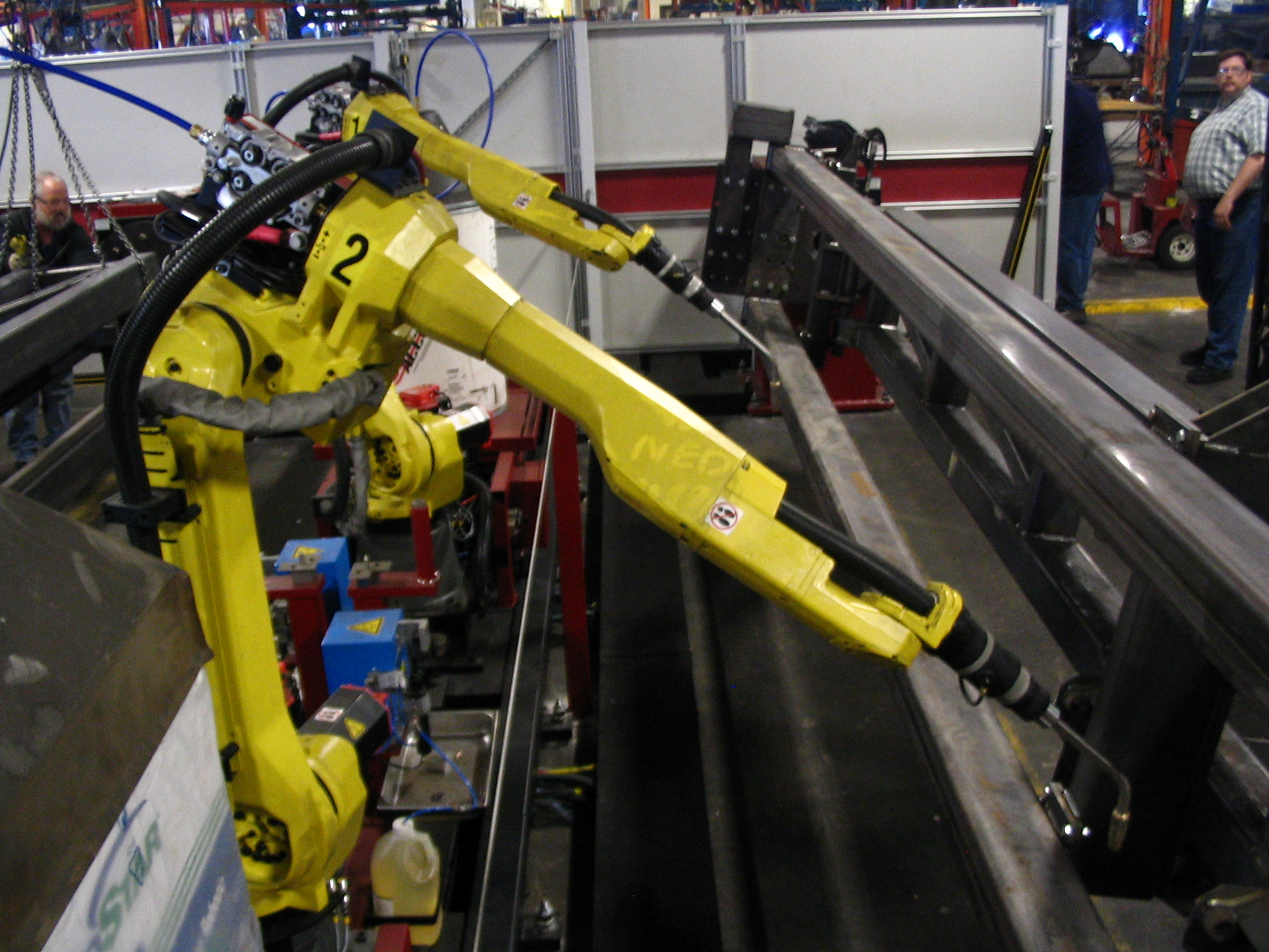 Bras robot industriel 6 axes de soudure, ARC Mate 120iC/10L de FANUC.